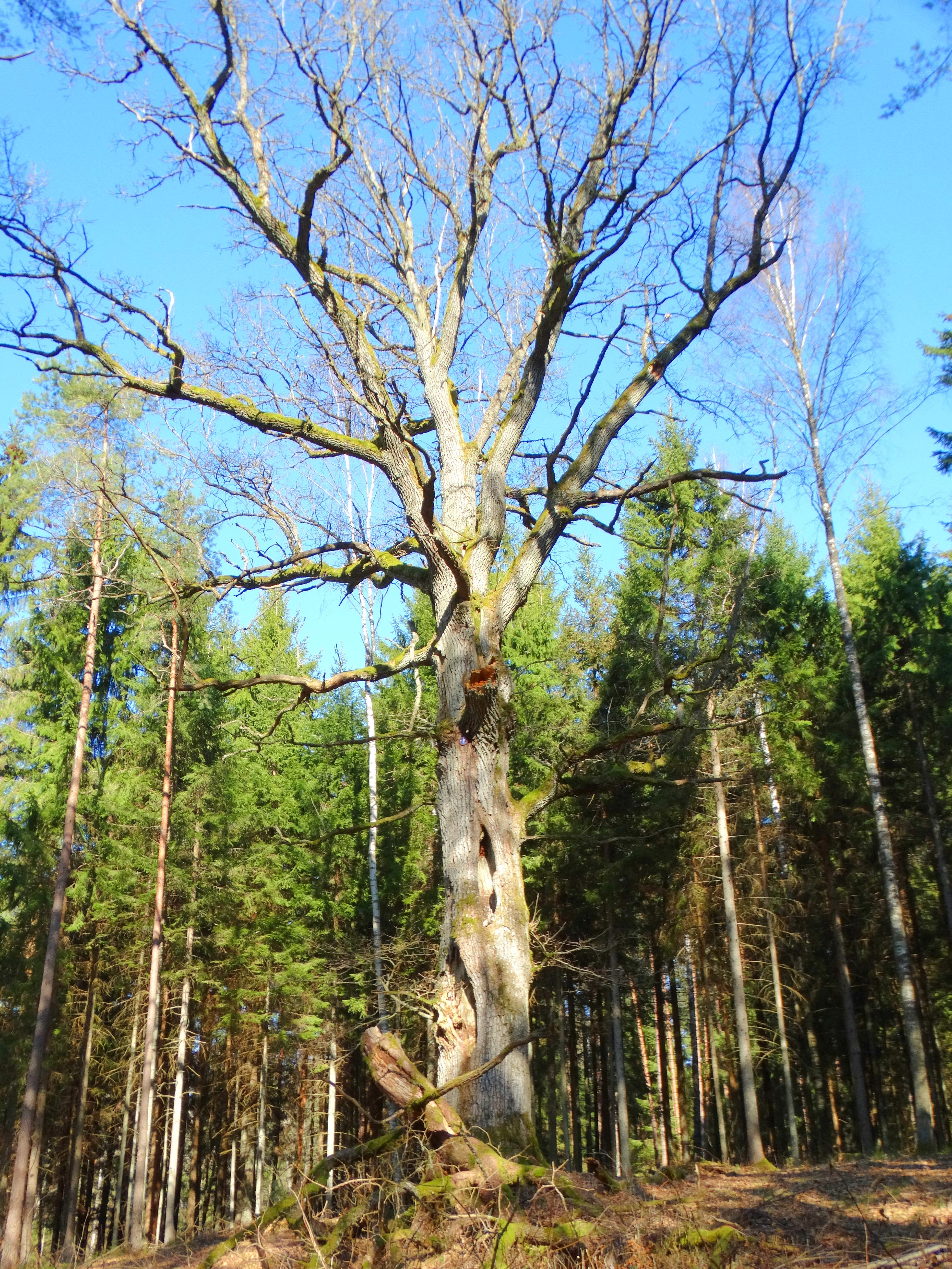 Oak (horeshoe with photo in the middle of trunk), Zuikiškė, Šiauliai district, Lithuania